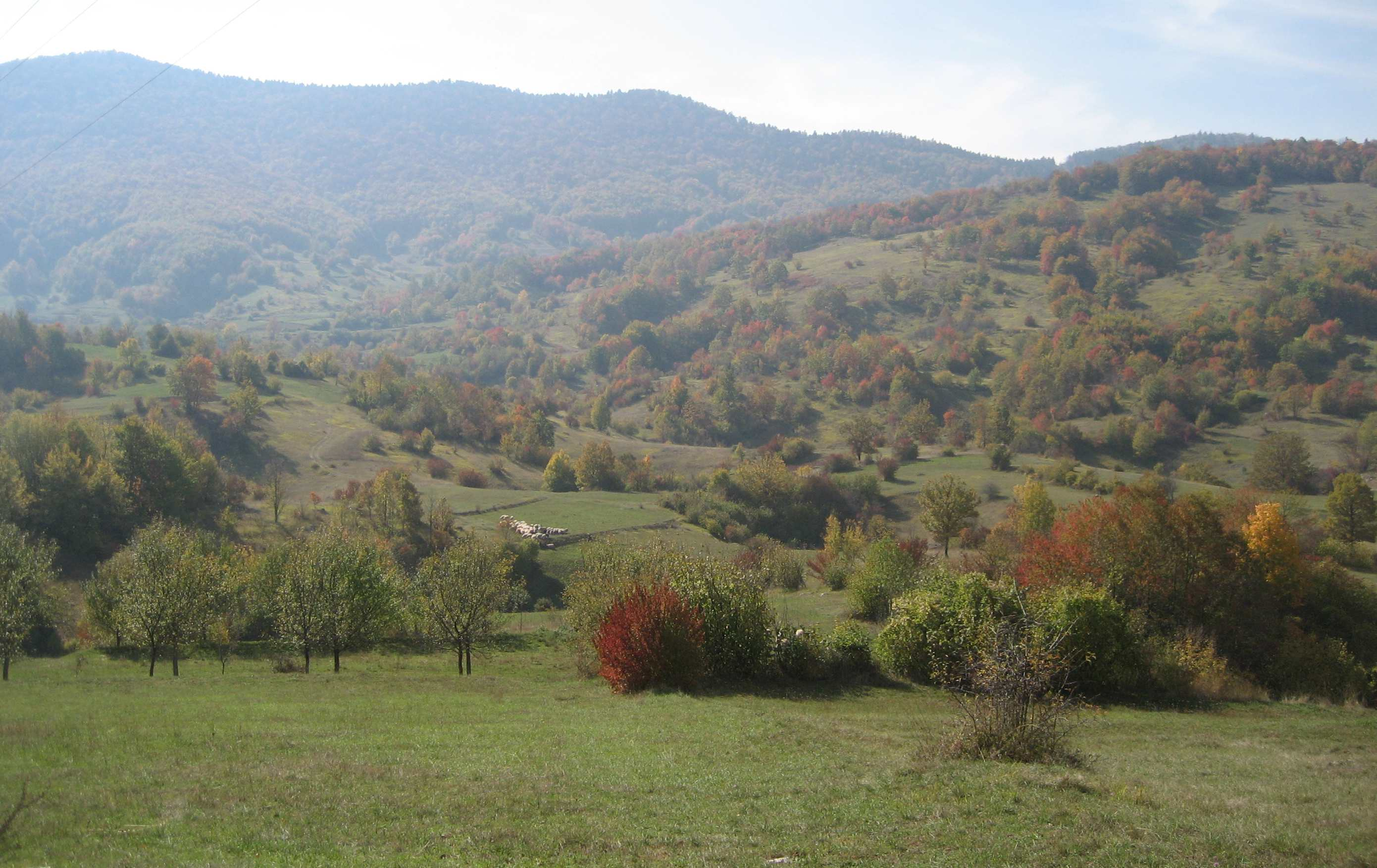 Dinaric Alops, near Kuterevo, Croatia